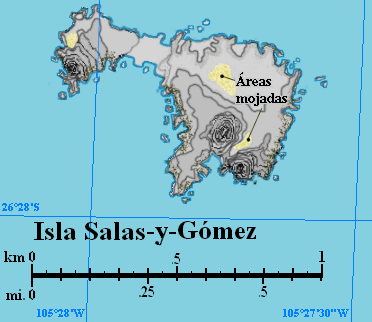 Topographic map of Sala y Gomez Island, Chile.